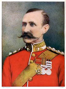 Major-General Sir William Penn Symons KCB (1843–1899)